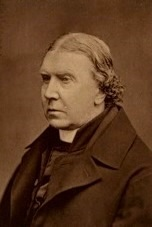 His Grace the Archbishop of Canterbury [Archibald Campbell Tait (1811-1882)]